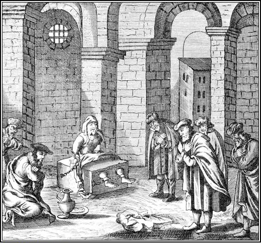 Shabbatai Tzvi as a prisoner of the Turks in Abydos.